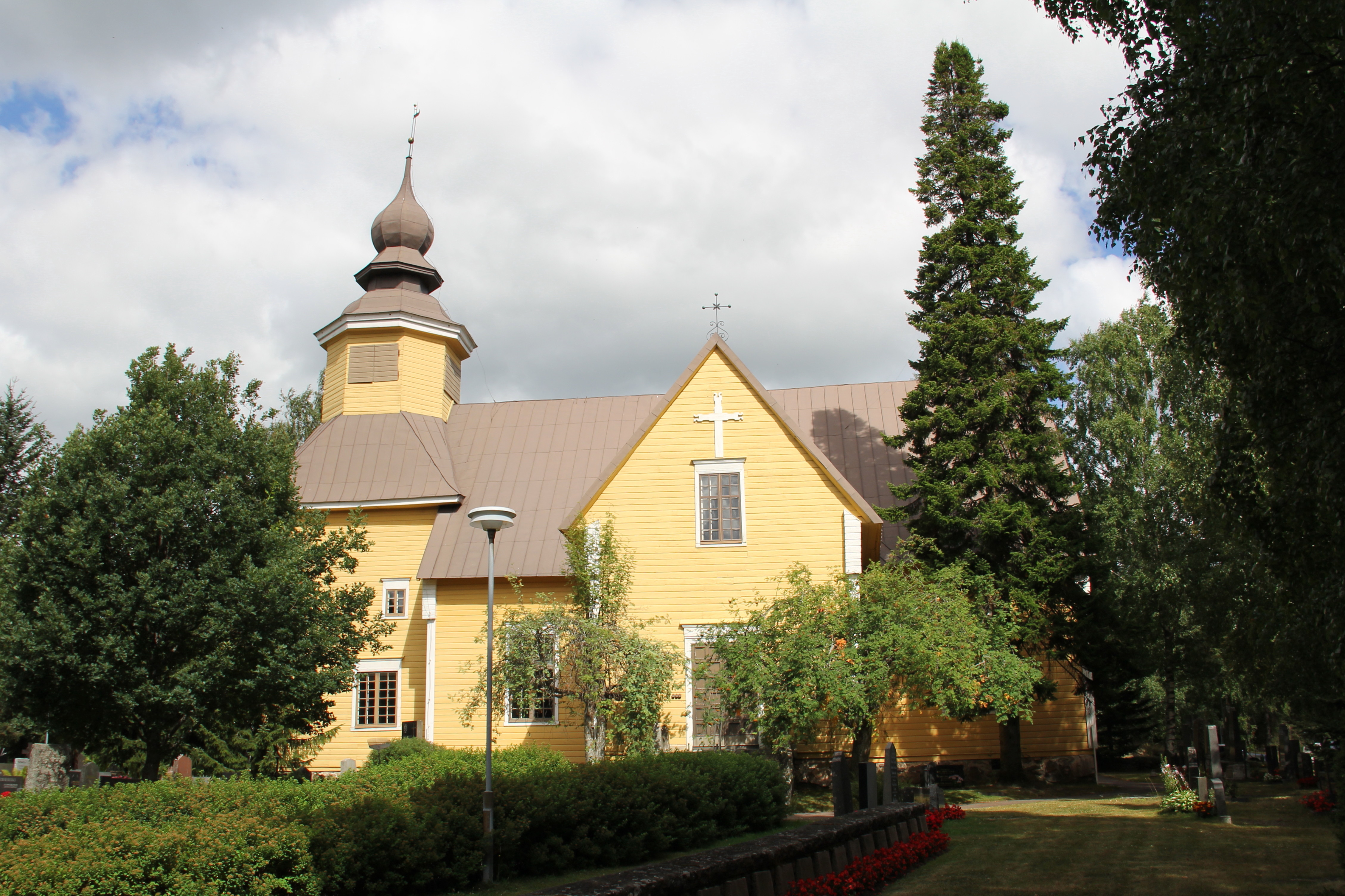 Tarvasjoki church, Tarvasjoki, Finland. Completed in 1779, built by Mikael Piimänen. Seen from southeast over the military cemetery.